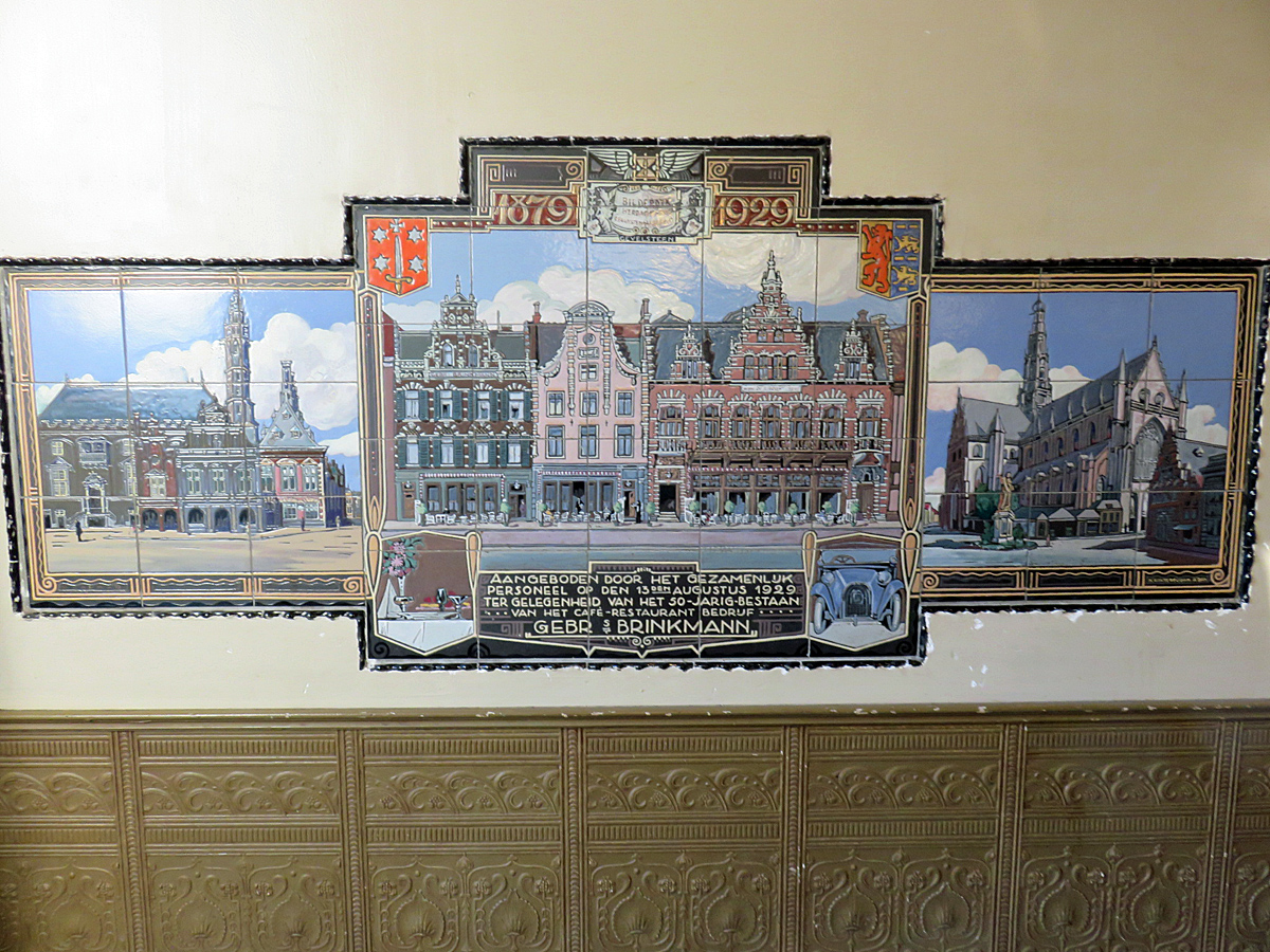 Tableau from 1929 commemorating the 50th anniversary of grand cafe Brinkmann at Grote Markt in Haarlem